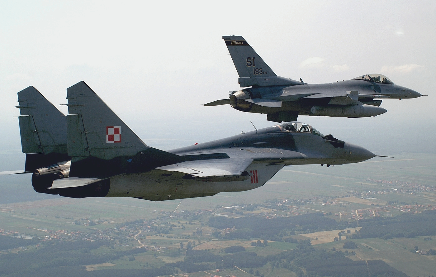 A U.S. Air Force General Dynamics F-16C Fighting Falcon from the 183d Fighter Wing, Illinois Air National Guard, flies in formation with a Polish Mikoyan-Gurevich MiG-29A from the 1st Tactical Squadron over Krzesiny air base, Poland, on 15 June 2005. Both aircraft participated in exercise "Sentry White Falcon 05".